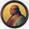 Portrait of Pope Benedict VII, painted before 1923